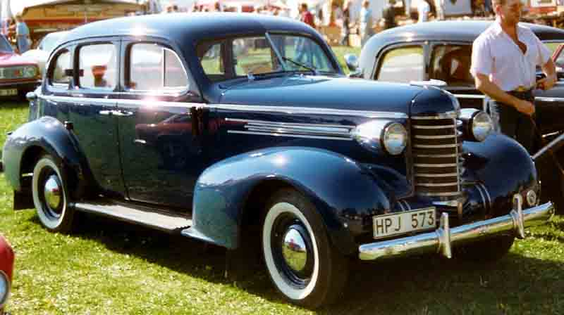 Oldsmobile Series F-373619 4-Door Touring Sedan 1937